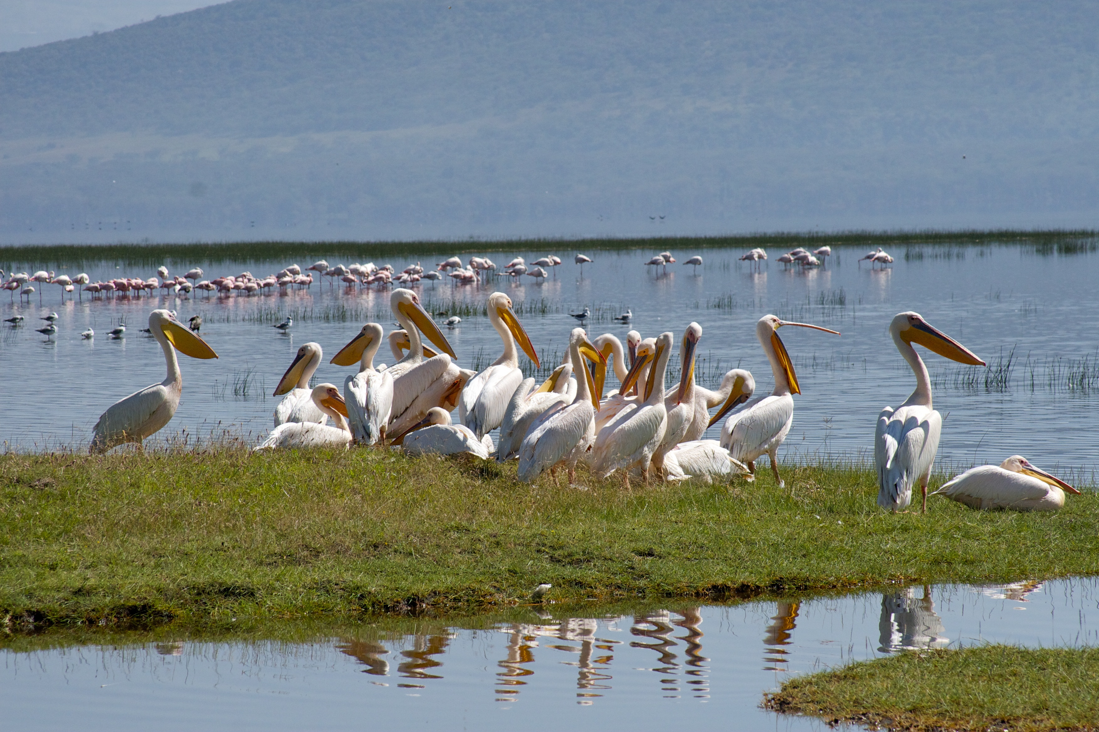 Great White Pelicans in Kenya. There are flamingoes in the background.